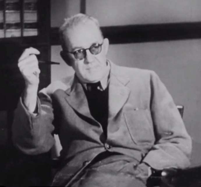 Screen shot from OSS training film, uploaded to Commons at